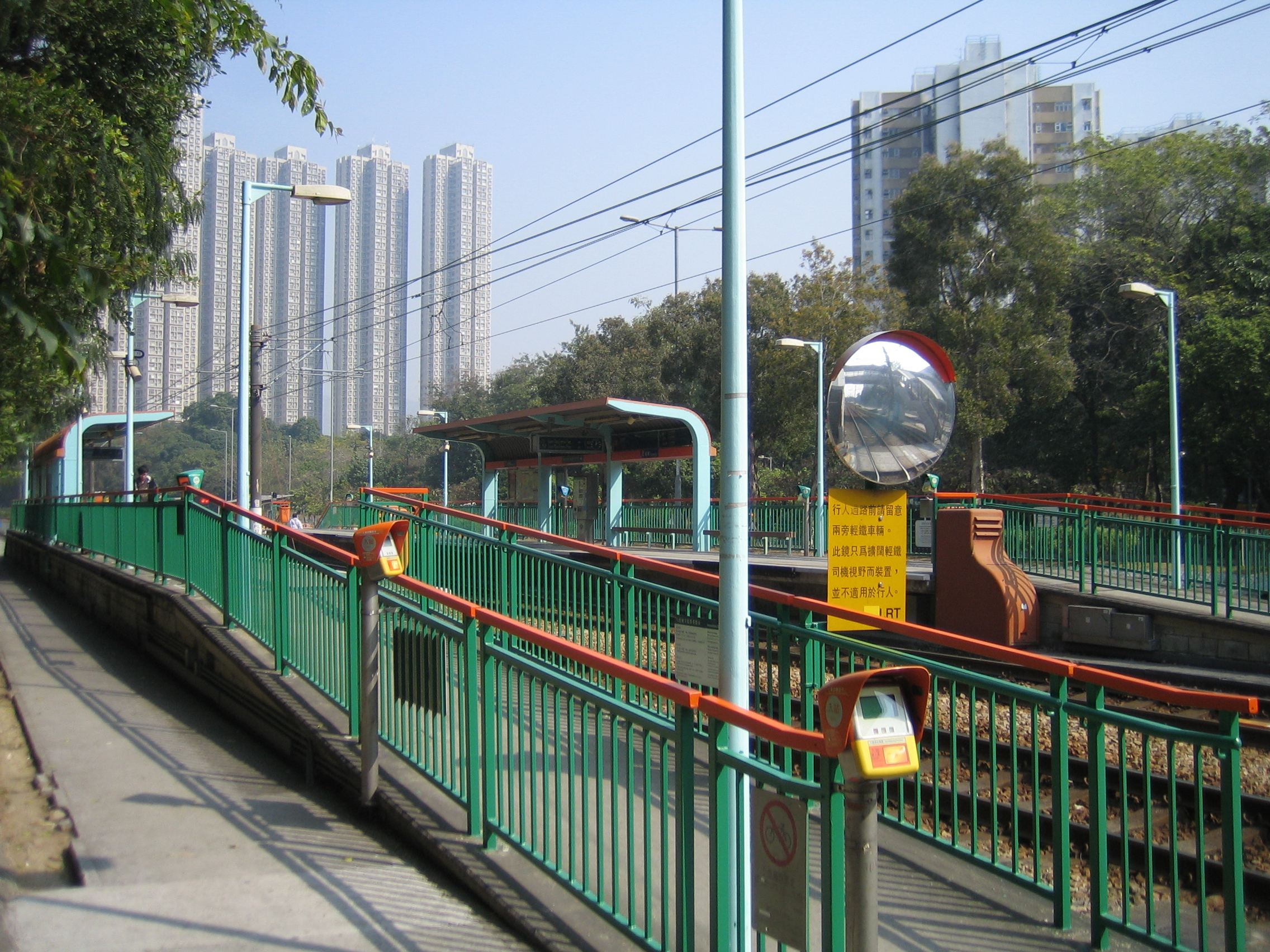 Butterfly Stop, MTR Light Rail, Hong Kong. If you have any questions about the licensing (like cc-by-sa, GFDL), or you want to republish the image without using the licensing shown as below, you are welcome to leave a message on the User Talk Page of my Chinese Wikipedia account. 中文（香港）: 香港輕鐵蝴蝶站。如你對這照片版權許可協議 (例cc-by-sa, GFDL) 有疑問，或你想把照片不用以下的版權協議轉載，歡迎你到我在中文維基百科的用戶對話頁留言。